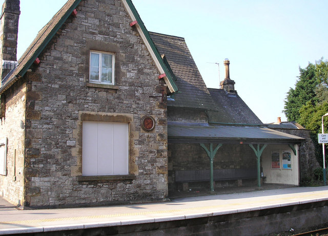 Cark and Cartmel Station. Looking across to the platform for trains to Barrow. The main building was erected by the Ulverston and Lancaster Railway in 1857.